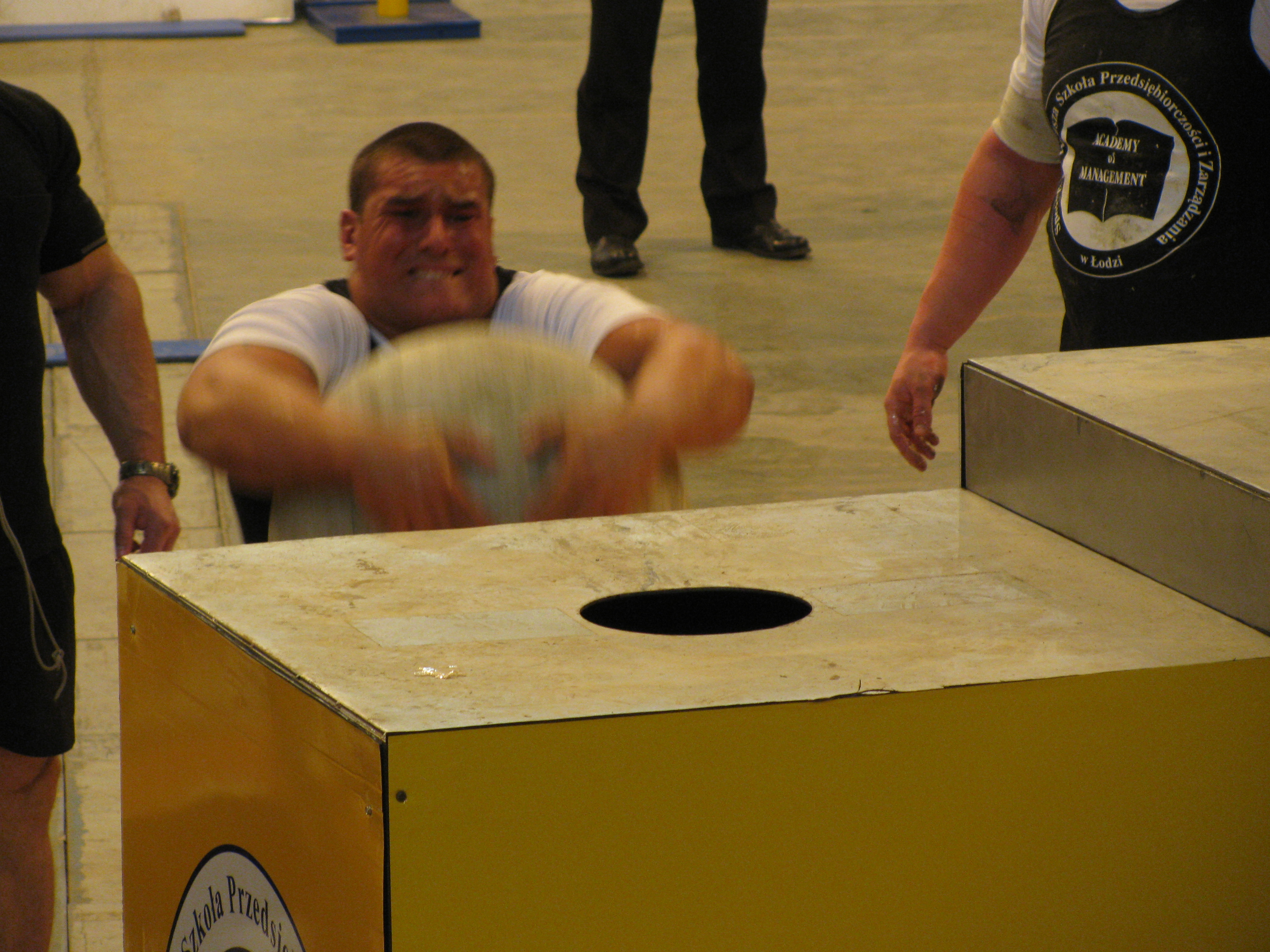 Mateusz Baron - a strength athlete from Poland at the Atlas Stones (170 kg goes up). The Battle of The Giants competition in Poland, Łódź City, February 28nd, 2009.